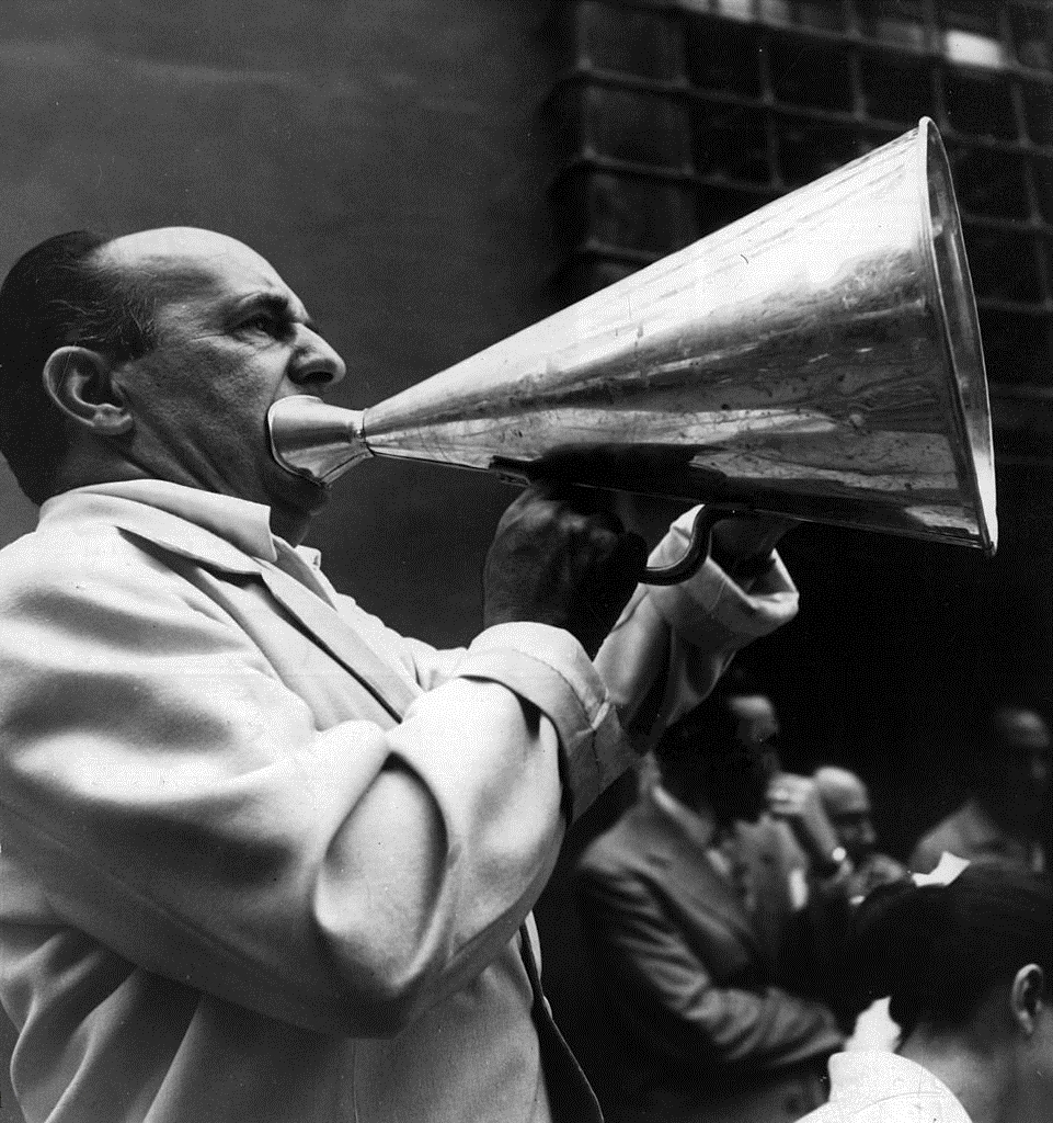 The director Léonide Moguy giving instructions to actors with a loudhailer on the set of the drama 'Domani F un altro giorno'. Italy, 28th August 1950